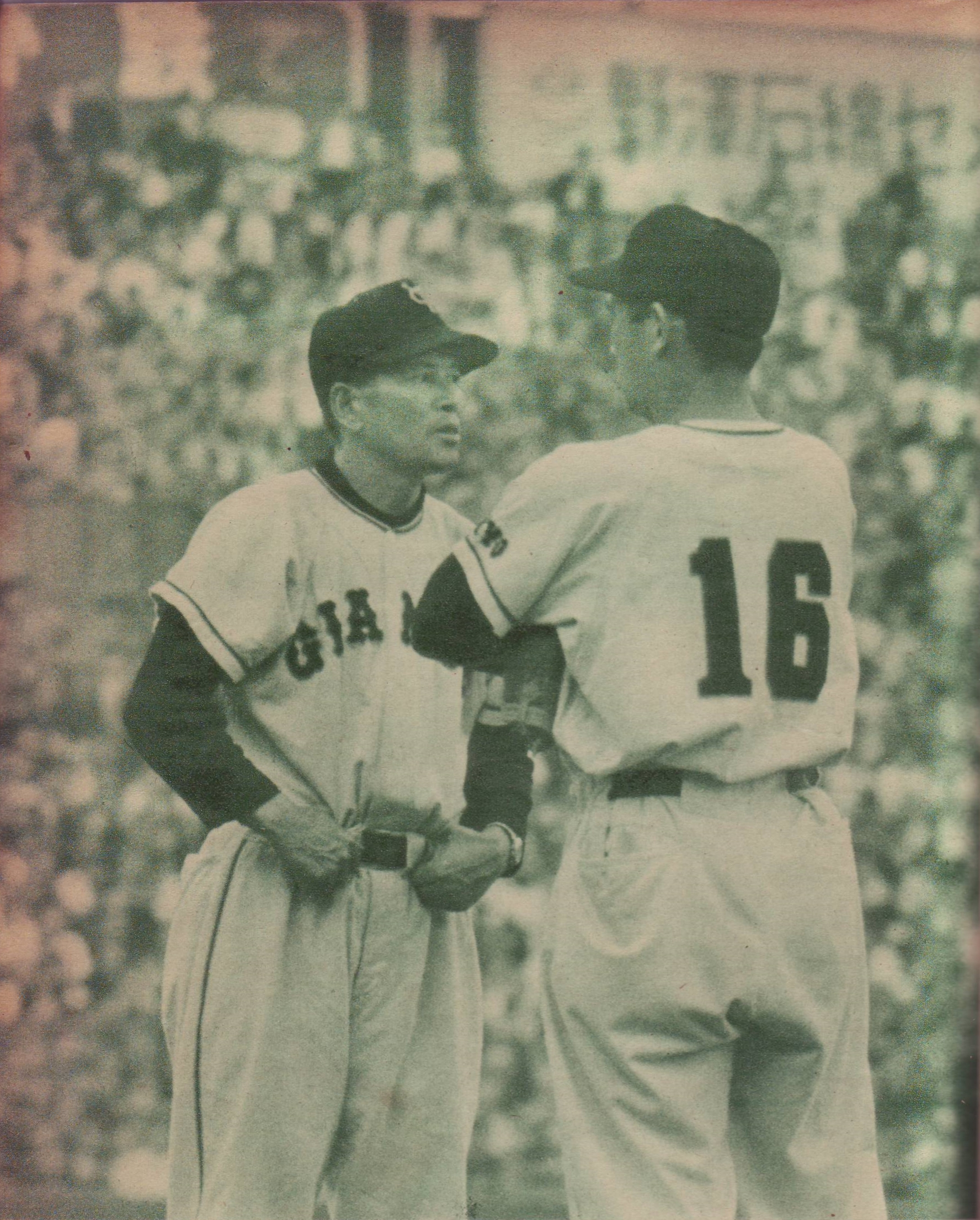 Shigeru Mizuhara (Yomiuri Giants manager). taken in 1956.